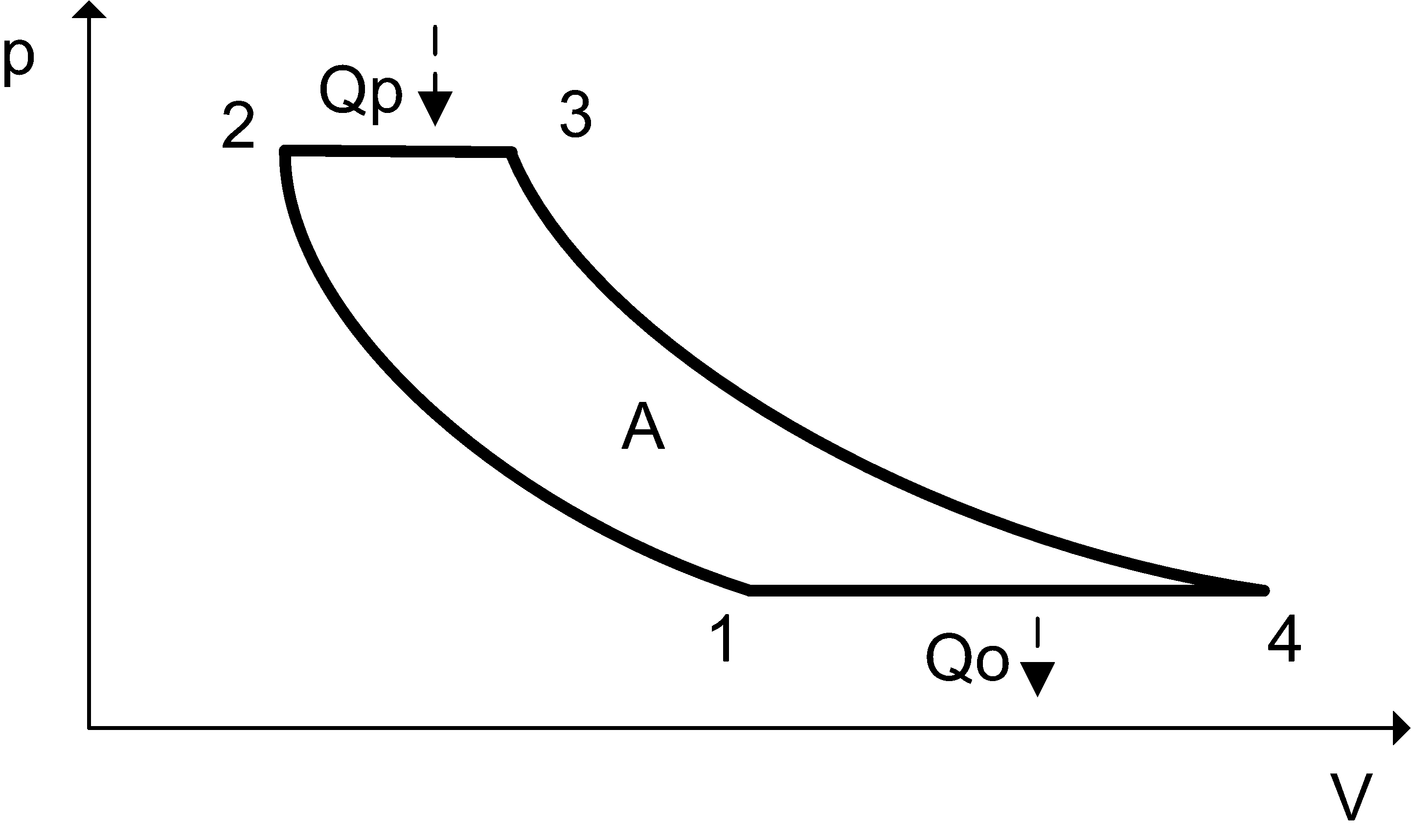 Brayton cycle in p-V diagram.